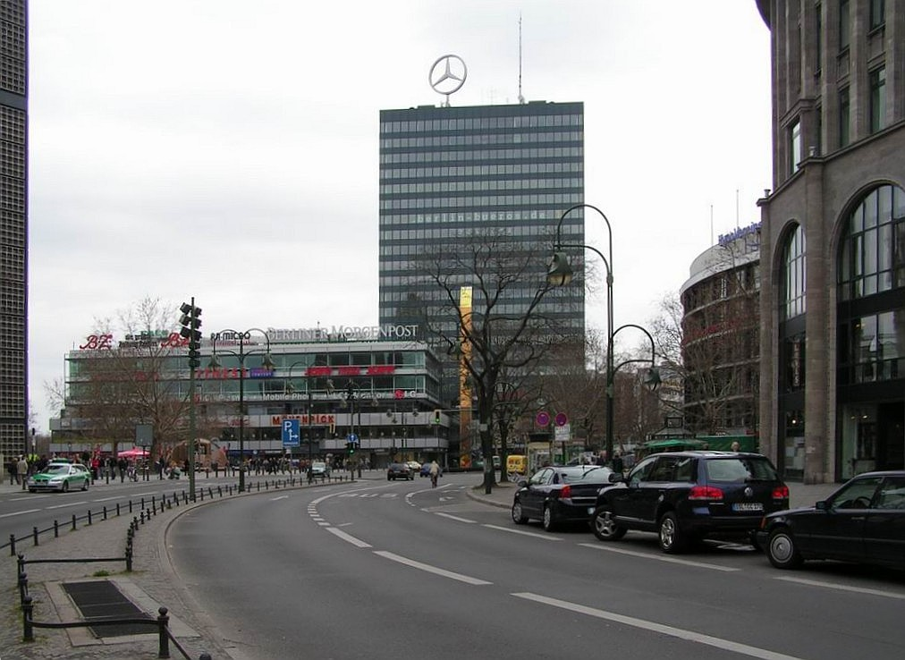 The Europa-Center-Berlin in Berlin-Charlottenburg, seen from Kurfürstendamm